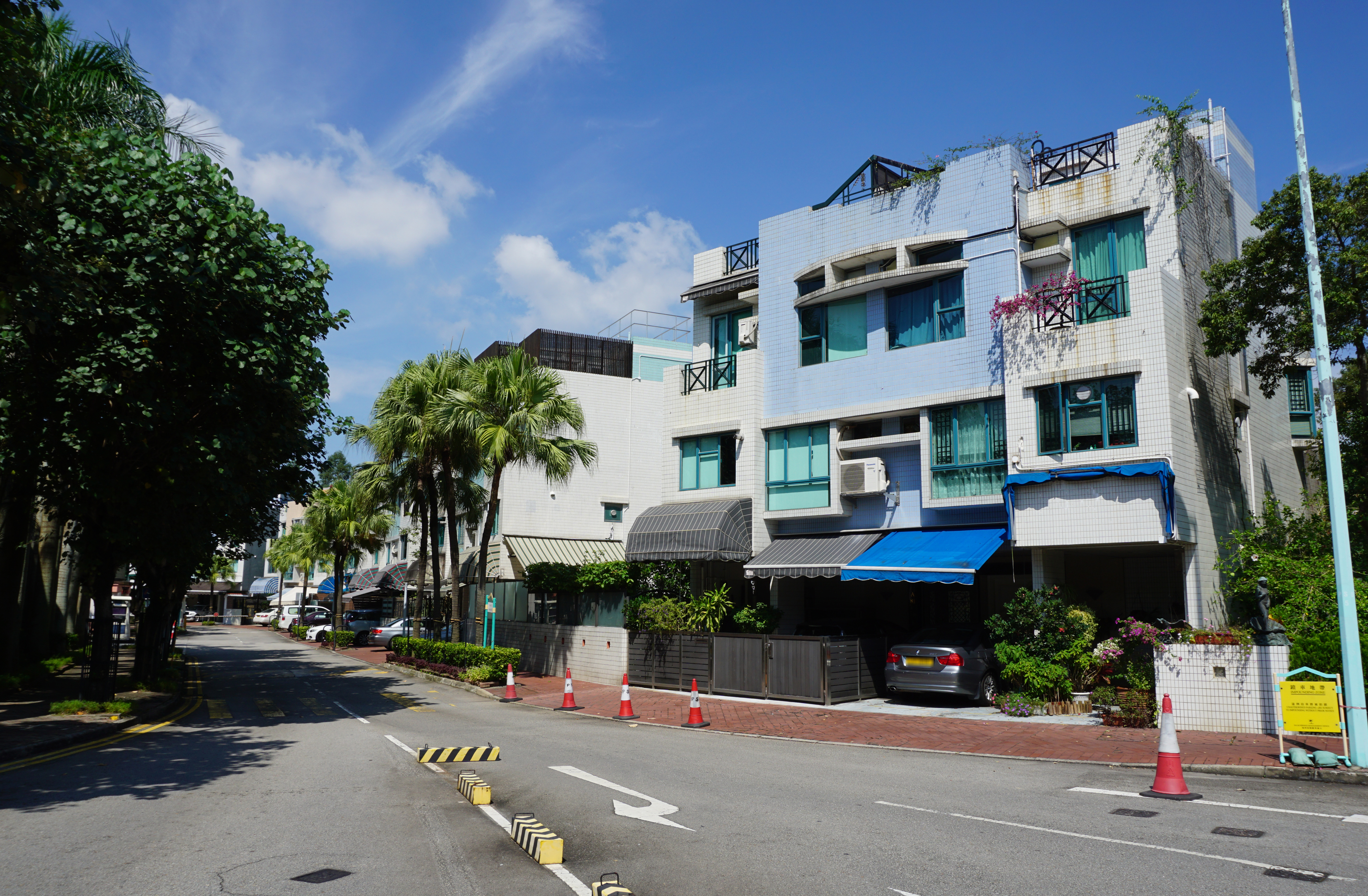 Palm Springs in Wo Shang Wai, Hong Kong.